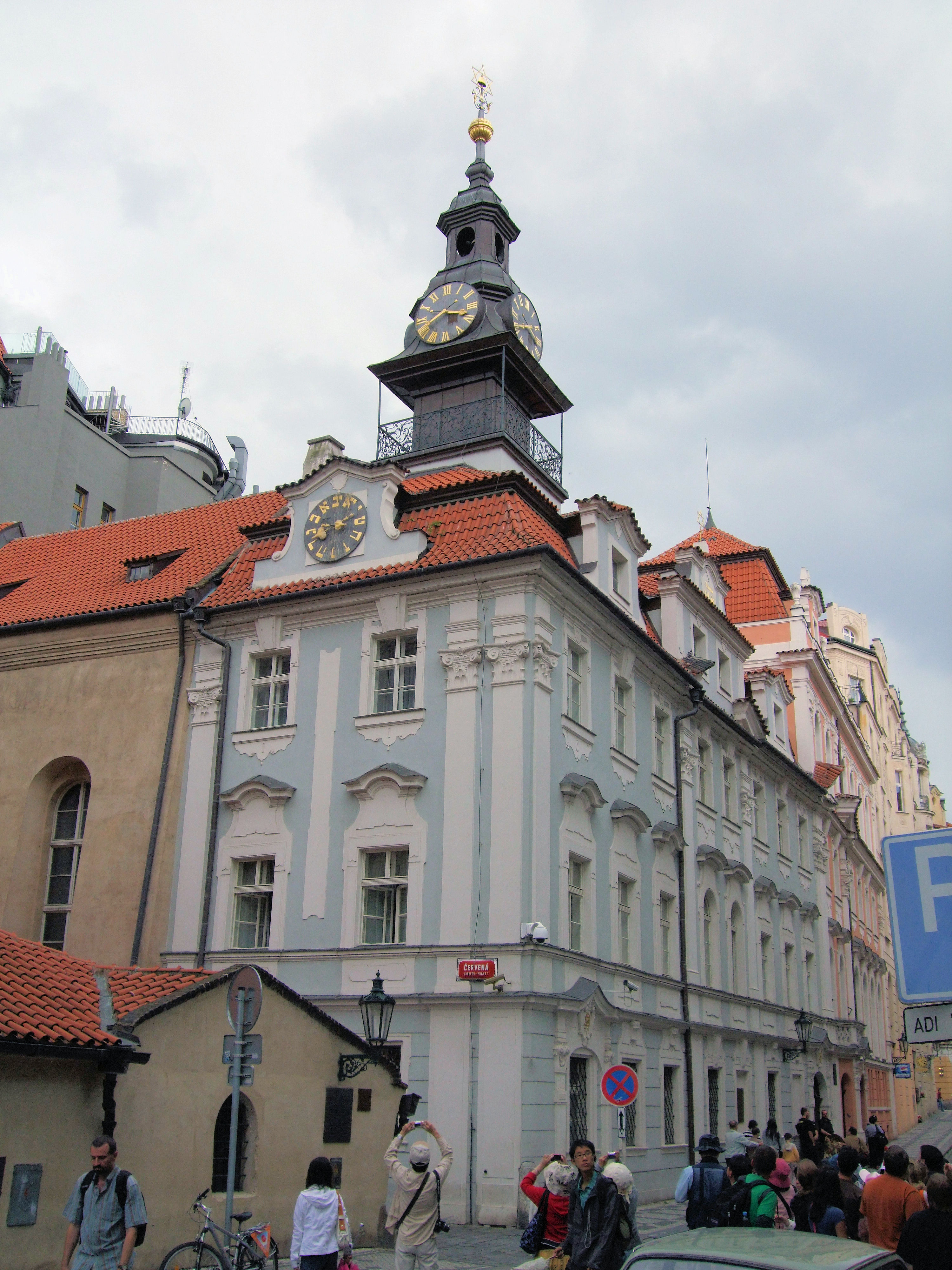 The Jewish Town Hall (Židovská radnice) is currently home to the Federation of Jews Religious Communities in Bohemia and Moravia and the Jews Religious community in Prague. It was created out of the revamp given to the original town hall of Maisel, a contemporary of Rabbi Löw and a man of inordinate wealth and discriminating taste. It was erected by builder Pankras Roder in the late 1500s. The late Baroque remodelling was carried out by the architect Josef Schleisinger in 1763. The Hebrew clock is the one on the roof just below a regular clock. The Hebrew clock has numbers in Hebrew and runs backwards. At the bottom of the photograph, you can see the roof top of the Old-New Synagogue.